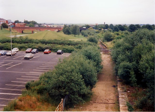 Knowsley Street railway station Original description: Bury Knowsley Street station site 1988 A platform edge from the station closed in 1970 can be seen on the right. The trackbed had been used until recently by British Rail coal trains to Ramsbottom with a diamond crossing where the Knowsley Street track met the new line to Bury Interchange. That point is marked where the two straight lines of bushes meet. The East Lancashire Railway preservation later relaid the track through Knowsley Street and on to Heywood.